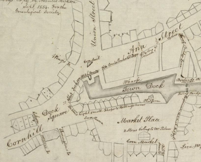 Detail of 1738 plan of Town Dock, Boston, Mass.